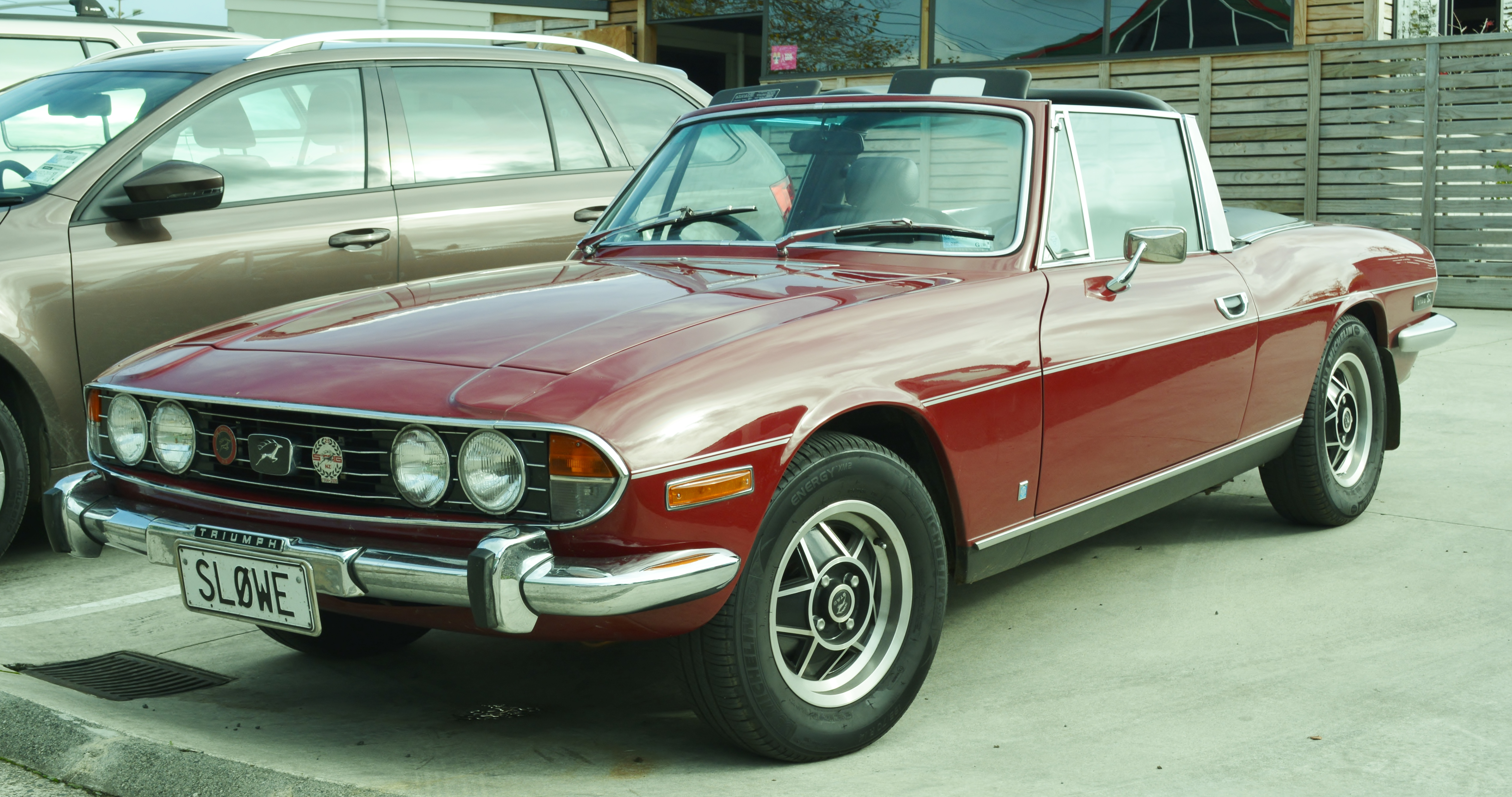 Patumahoe,Auckland.New Zealand